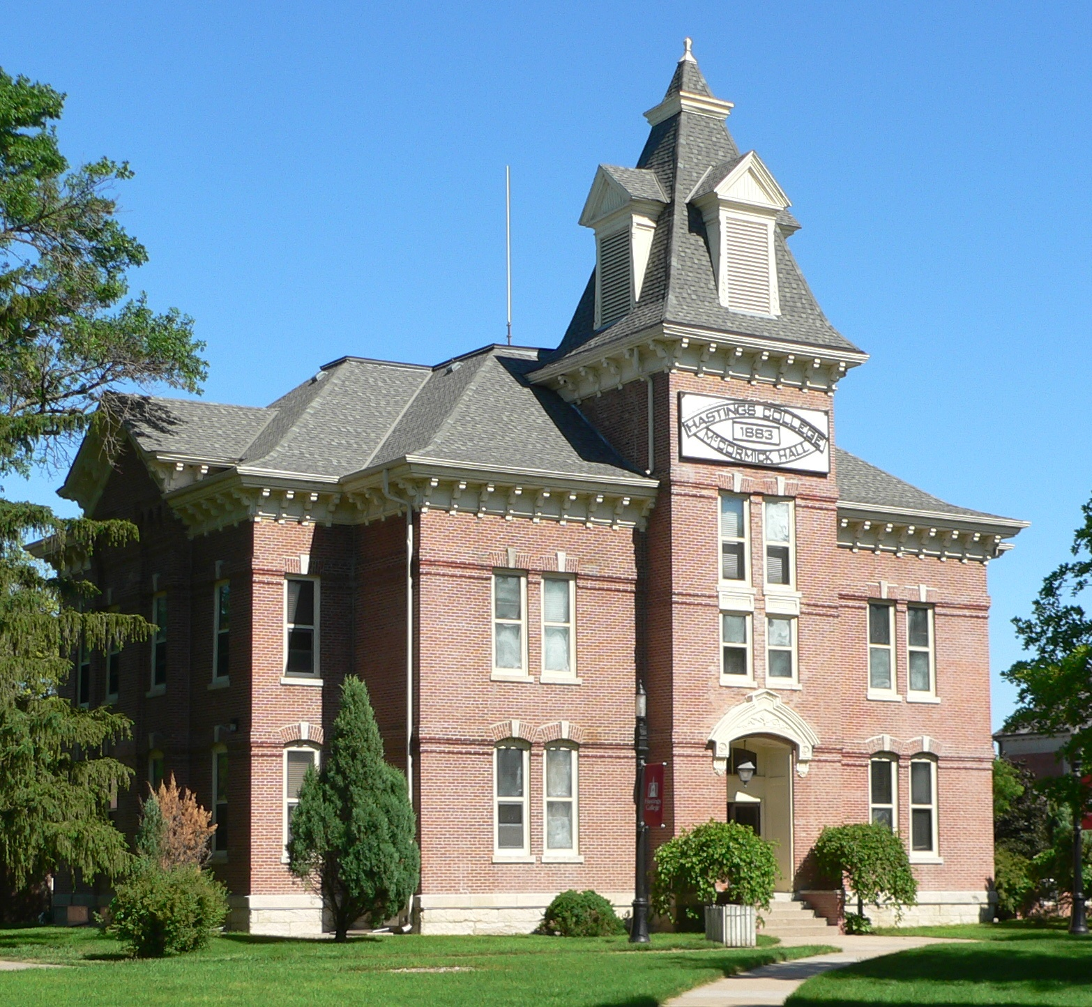 McCormick Hall, on the campus of Hastings College in Hastings, Nebraska; seen from the northwest. The Italianate building was constructed in 1883. It is listed in the National Register of Historic Places.